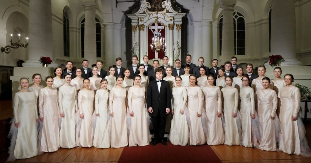 Koris "Kamēr..." 2015. gada decembrī